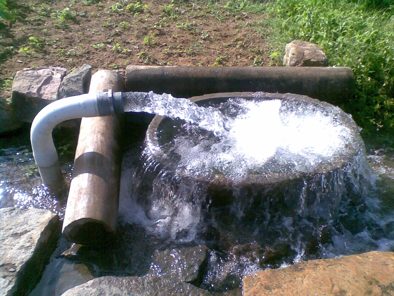 This picture depicting the Pump irrigation in Tamil Nadu